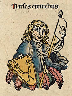 Woodcut from the Nuremberg Chronicle Narses, the Byzantine Emperor Justinian's general and advisor